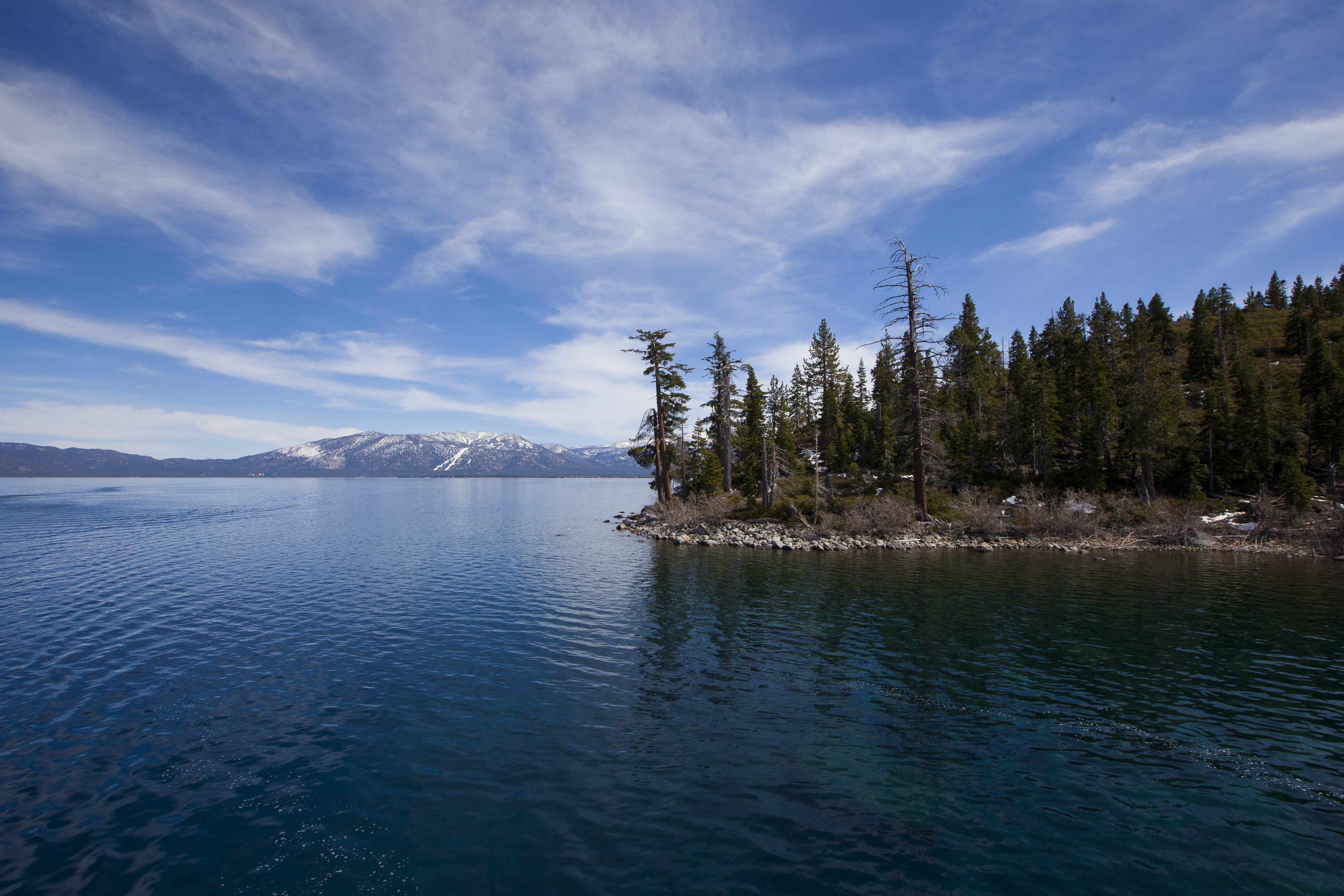 Image of the South Shore of the Lake from the West Shore. Heavenly Valley's ski runs can be seen quite clearly, as can just a bit of Job's Peak on the right.